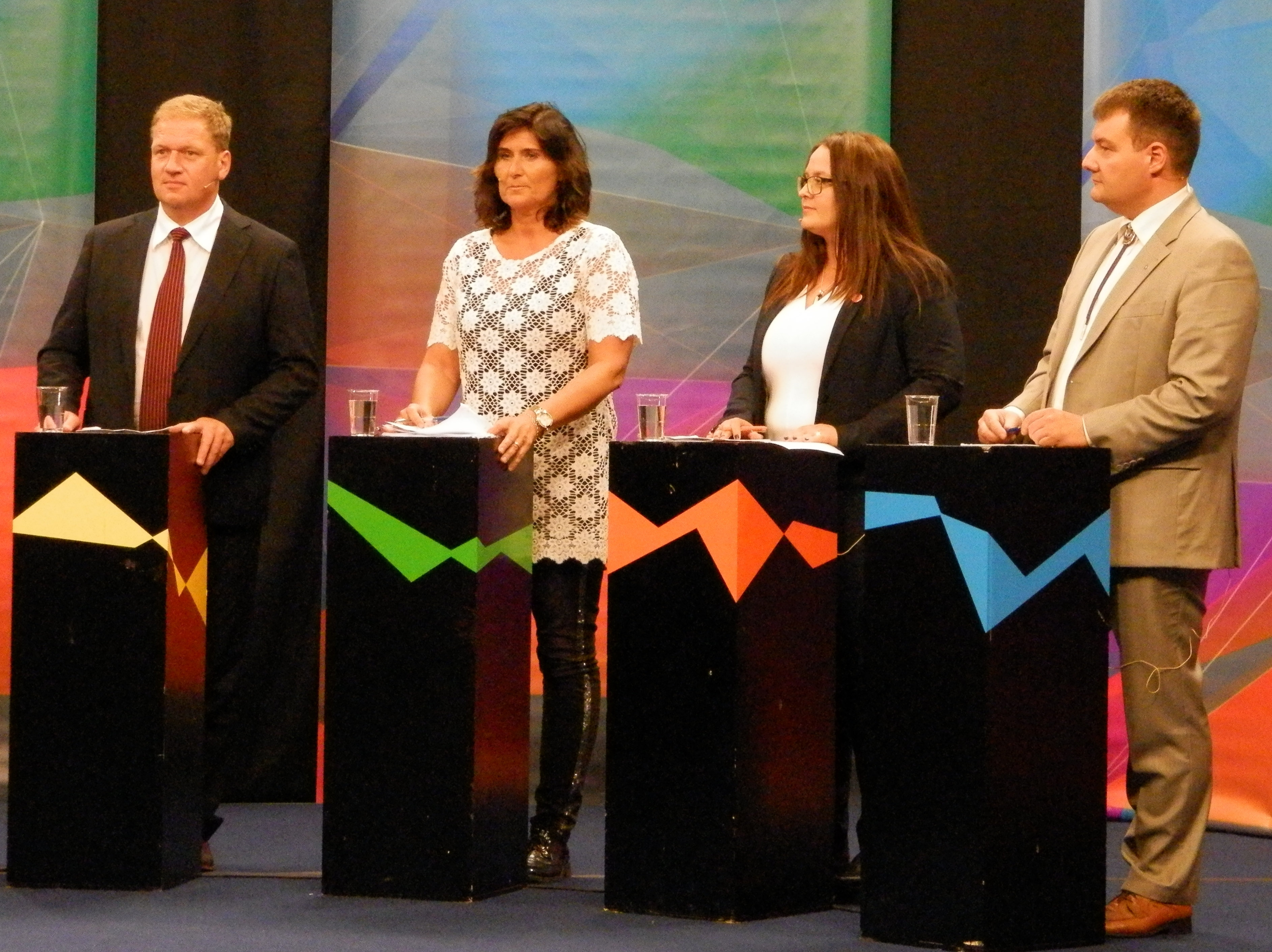 Faroese politicians one week before the parliamentary elections 2015.